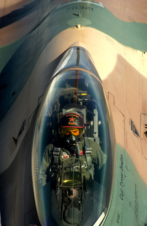 An F-16 Fighting Falcon aircraft from the 64th Aggressor Squadron approaches the boom on a KC-135 Stratotanker aircraft to refuel during Exercise Red Flag 07-1 at Nellis Air Force Base on Oct. 19, 2006. Red Flag is held at the Nevada Test and Training Range to test the war-fighting skills of aircrews from all branches of the armed forces in realistic combat situations.